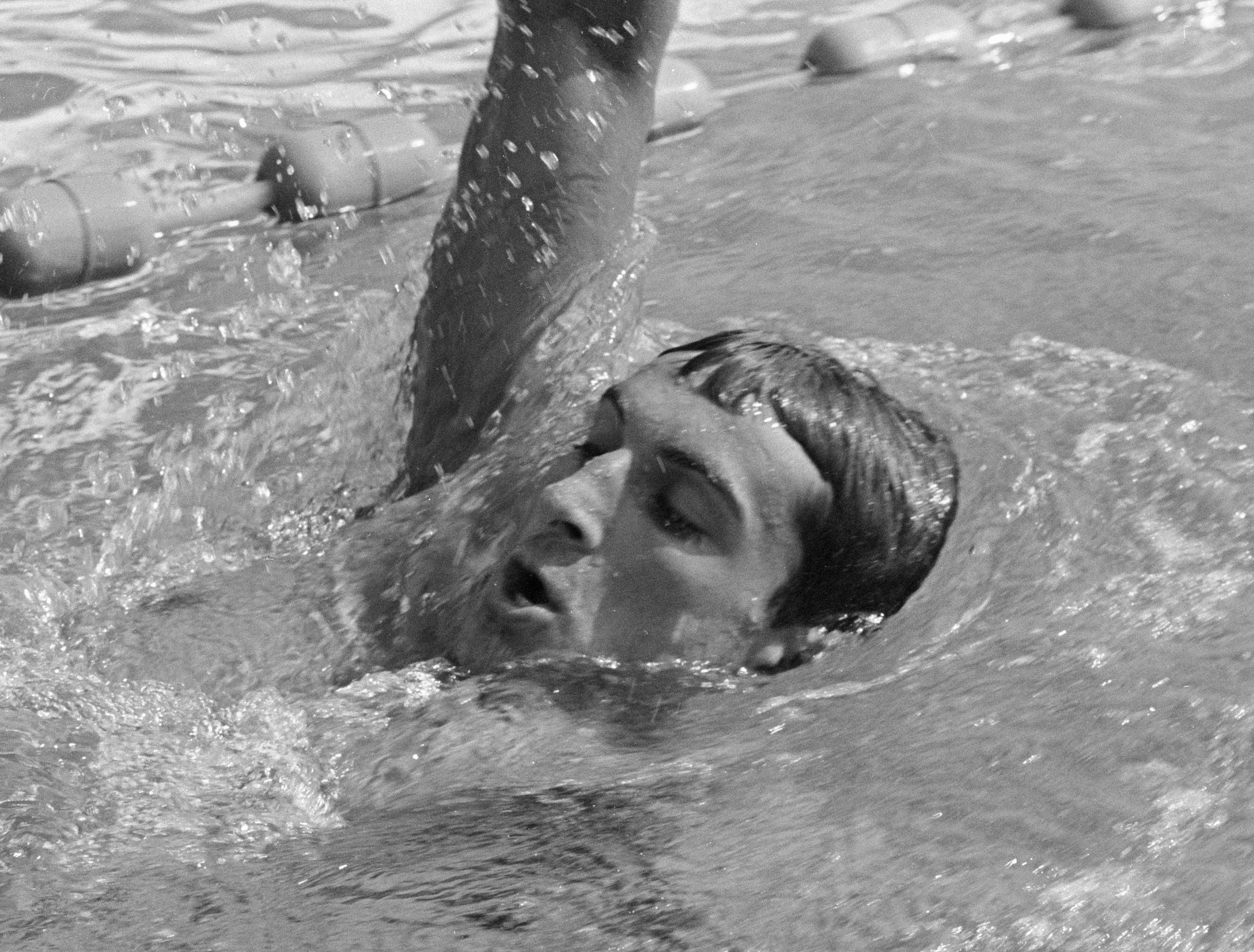 Viktor Mazanov